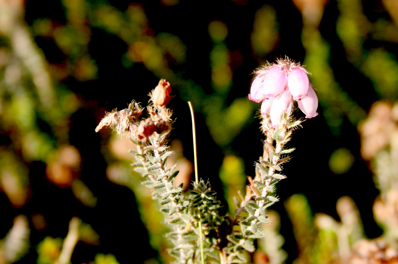 Flowering Erica tetralix near Åæbæk, Denmark.